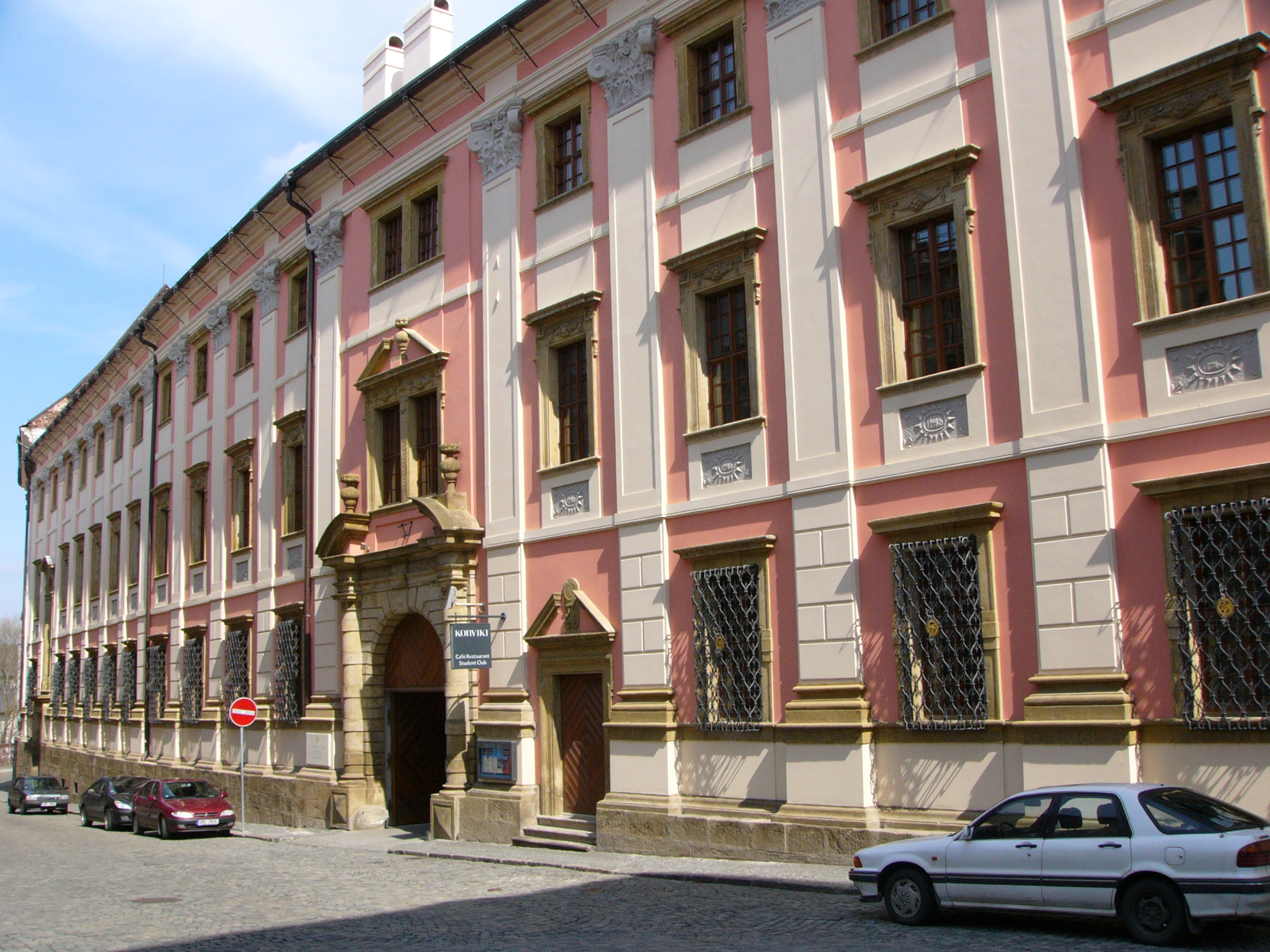 jezuitský konvikt in Olomouc (Czech Republic), the building is from 1720.